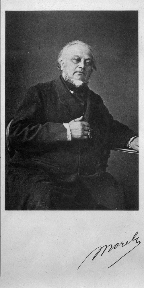 Bénédict Augustin Morel